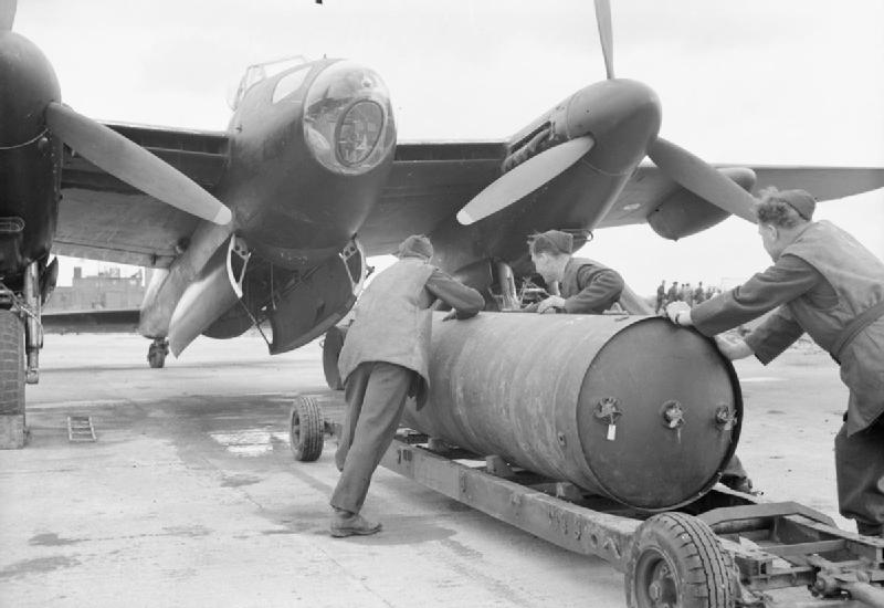 Armourers wheel a 4,000-lb HC bomb ('Cookie') for loading into a De Havilland Mosquito B Mark IV (modified) of No. 692 Squadron RAF at RAF Graveley, Huntingdonshire.